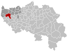 Map, municipality belgium Braives